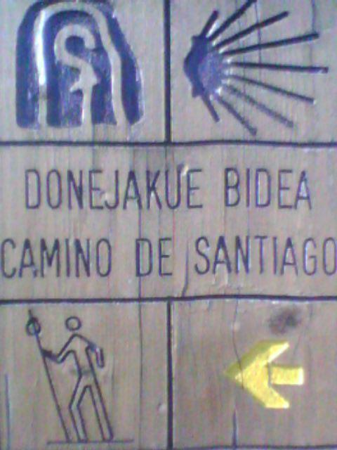 Sign at the Way of St. James in Barakaldo (Biscay)